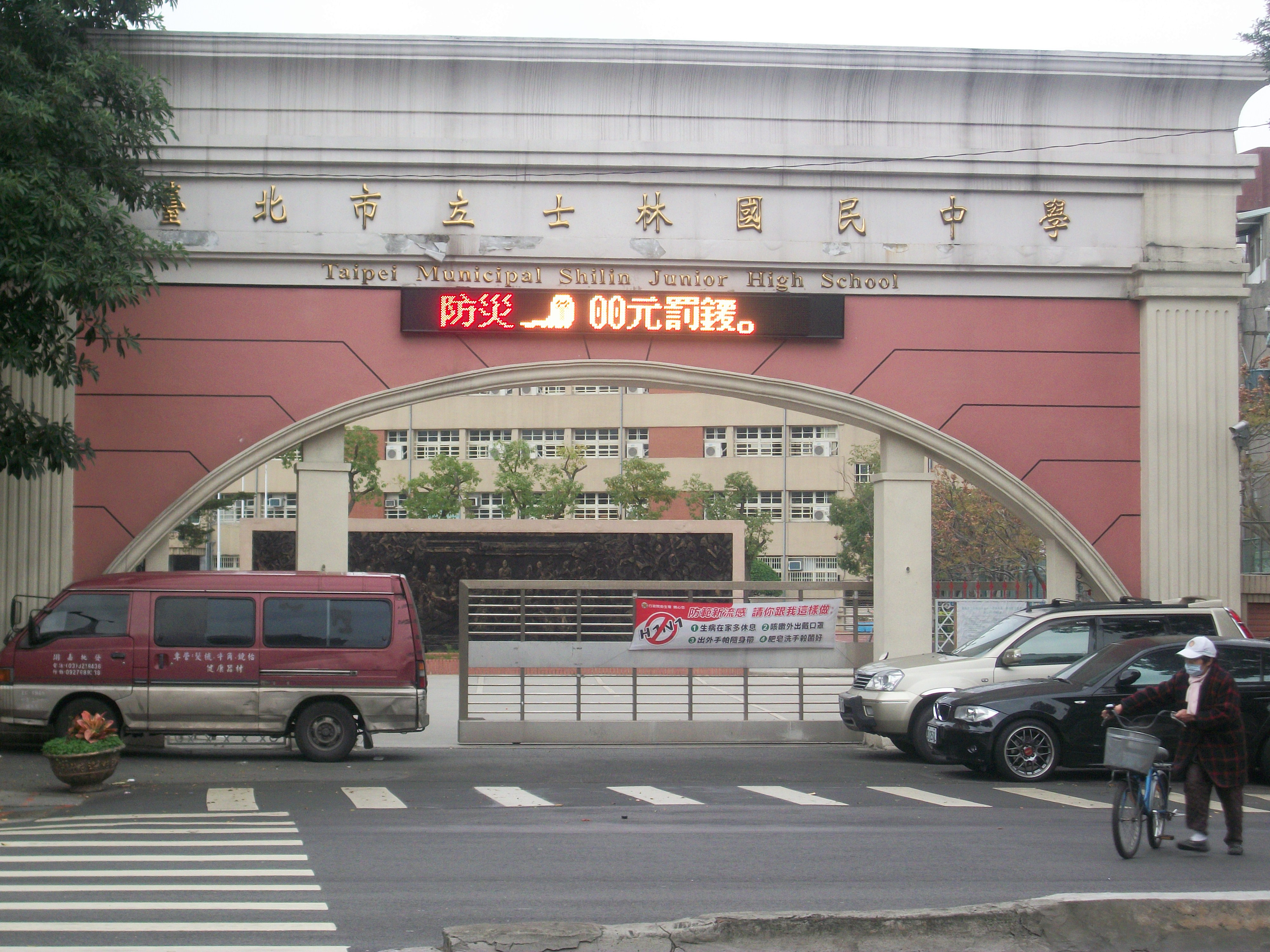 The main gate of Taipei Municipal Shihlin Junior High School.中文（台灣）: 臺北市立士林國民中學大門。